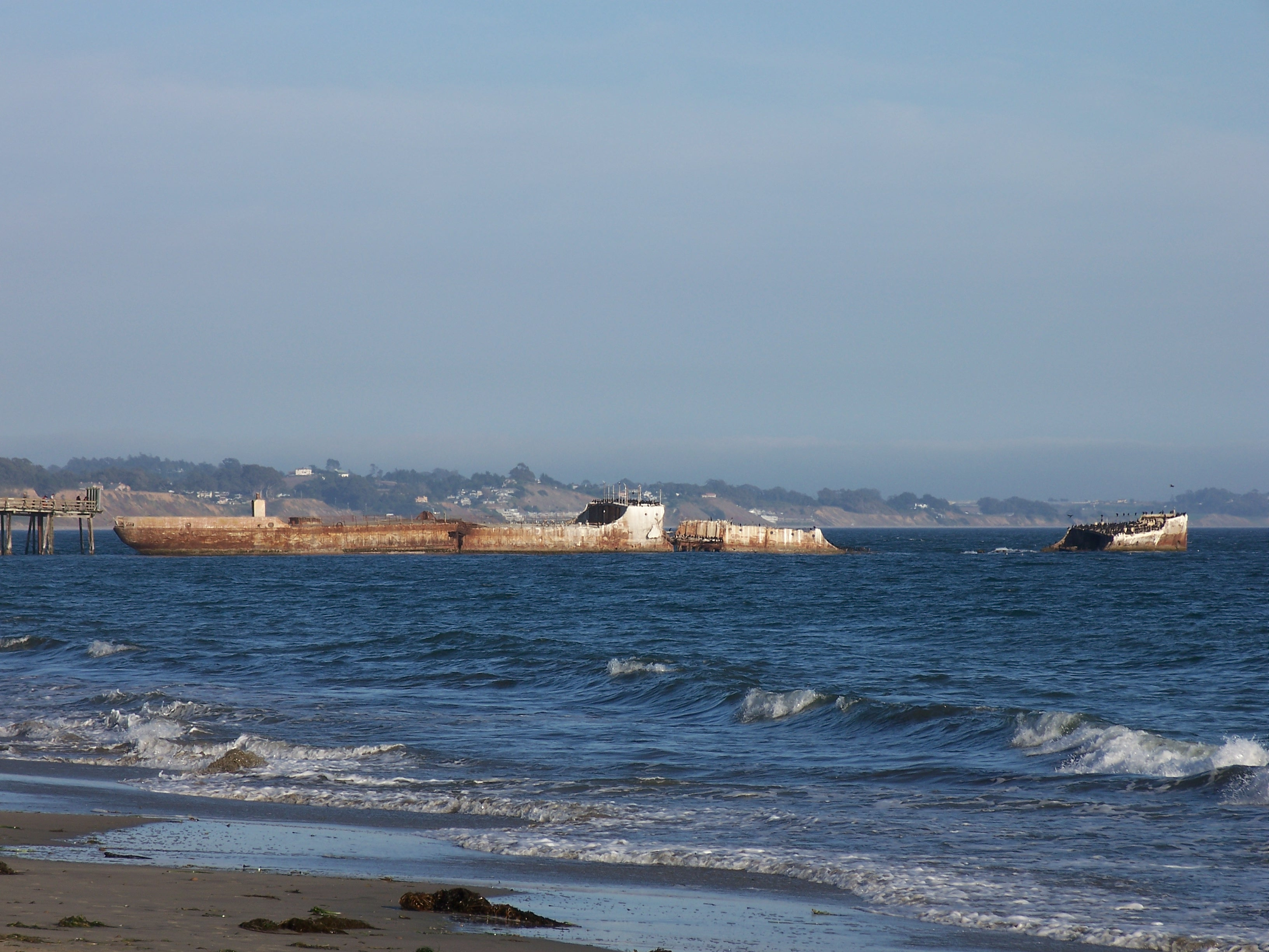 S.S. Palo Alto, Aptos, California, USA.